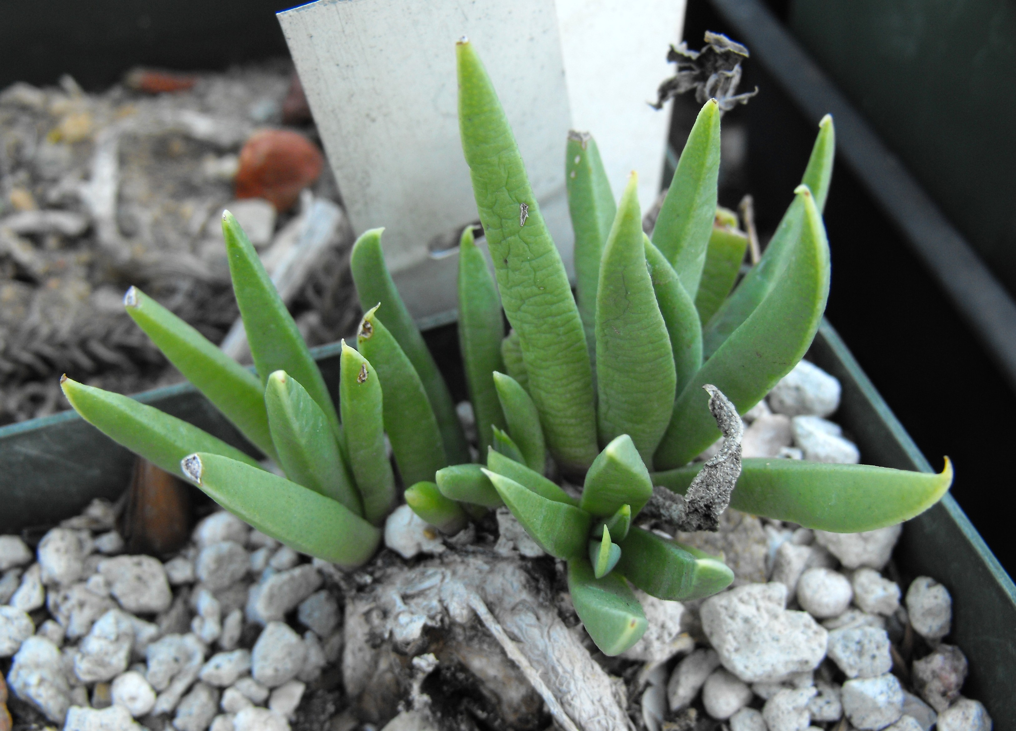 Bergeranthus scapiger at the Palomar College Arboretum, San Marcos, California, USA. Identified by sign.